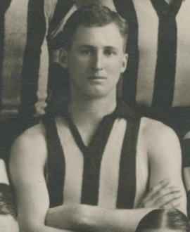 Photograph of George Carter from 1932-1937